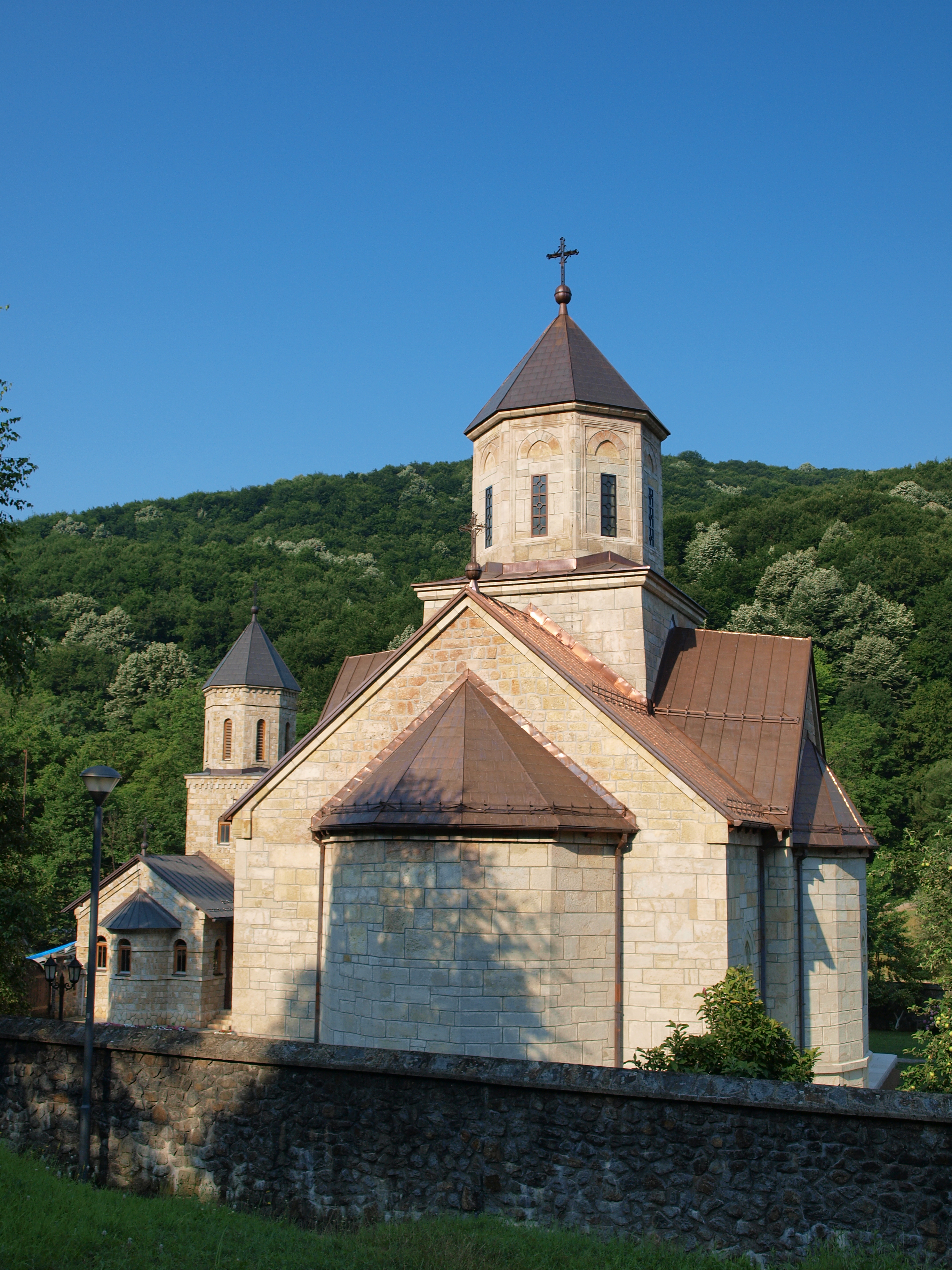 Serbian Orthodox monastery Moštanica, Republika Srpska, Bosnia.